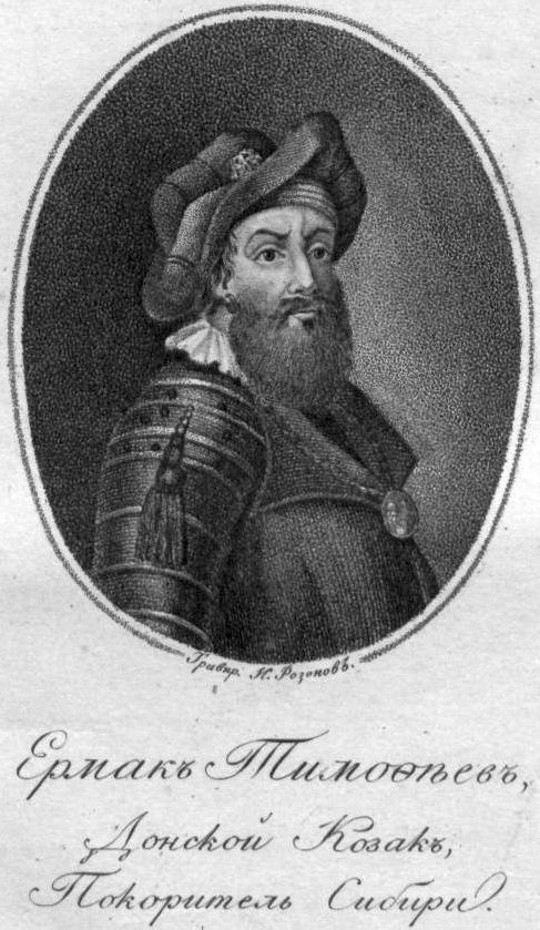 Yermak Timofeyevich